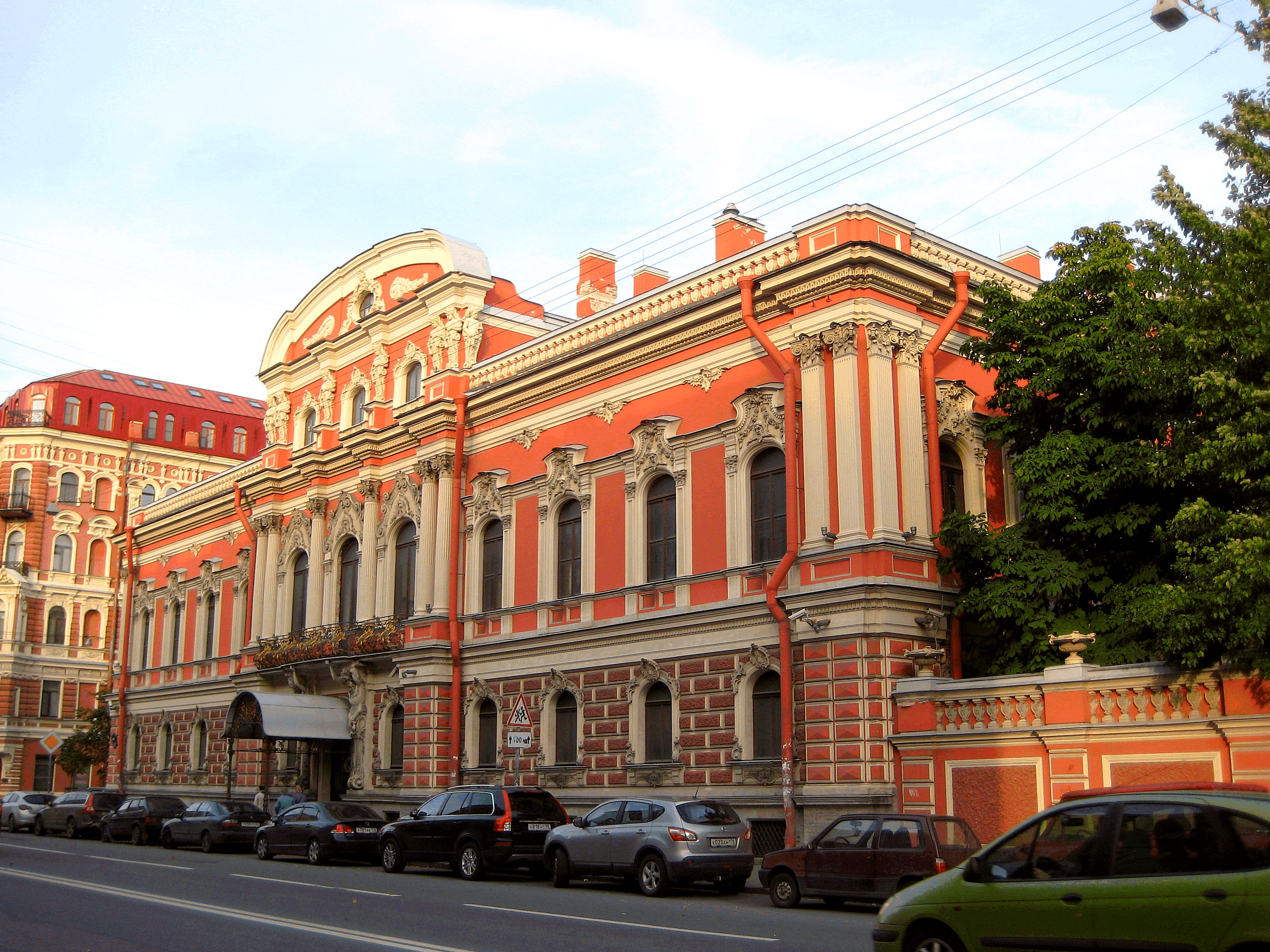 Mansion of Myasnikov (arch. A. Gemilian, V. Gartman), 1857-1859: Vosstaniya Ulitsa, 45 / Grodno Pereulok, 9 / Saperny Lane, 18, Central District, St. Petersburg.